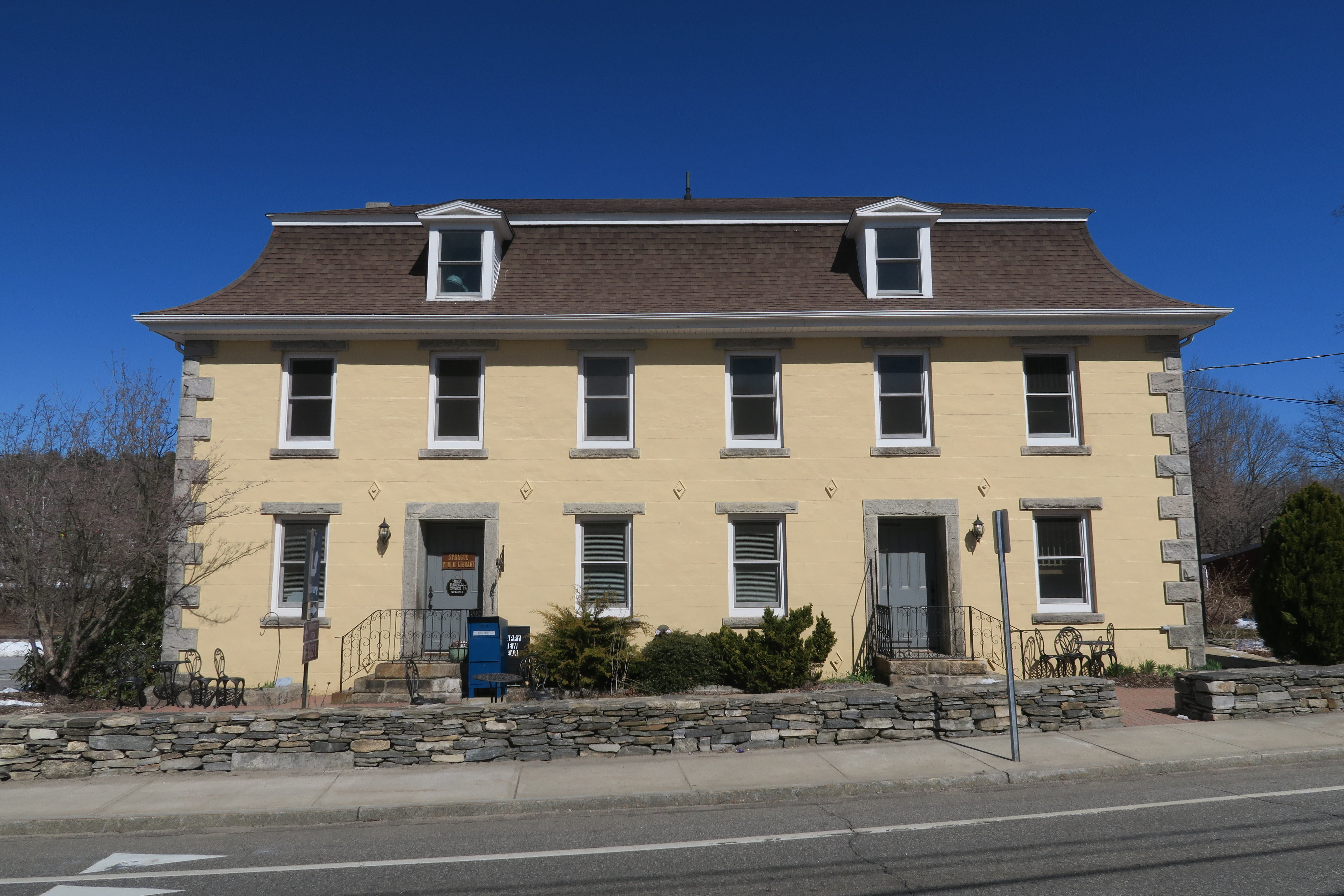 Sprague Public Library, Baltic Connecticut